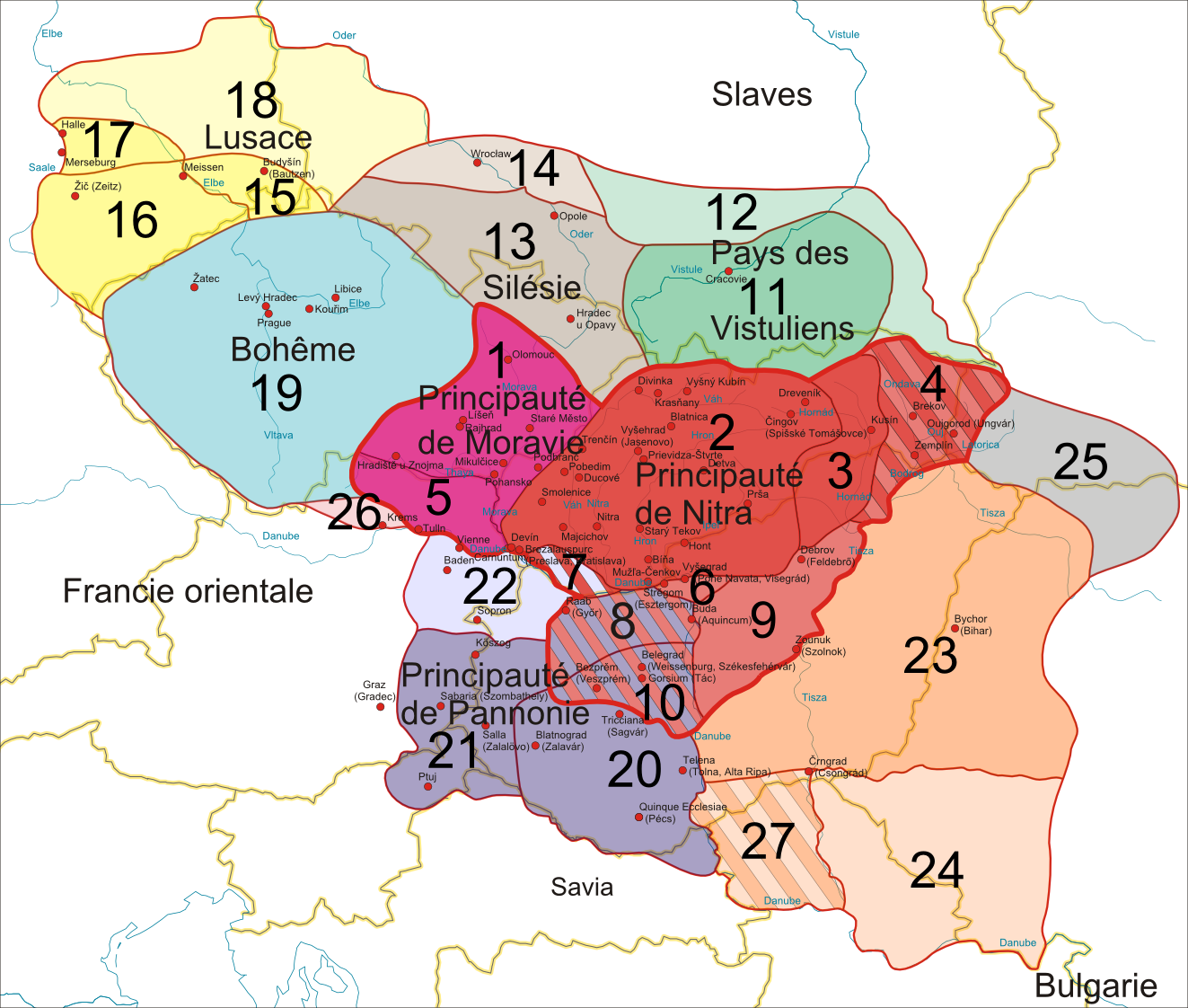 Historical map of Great Moravia